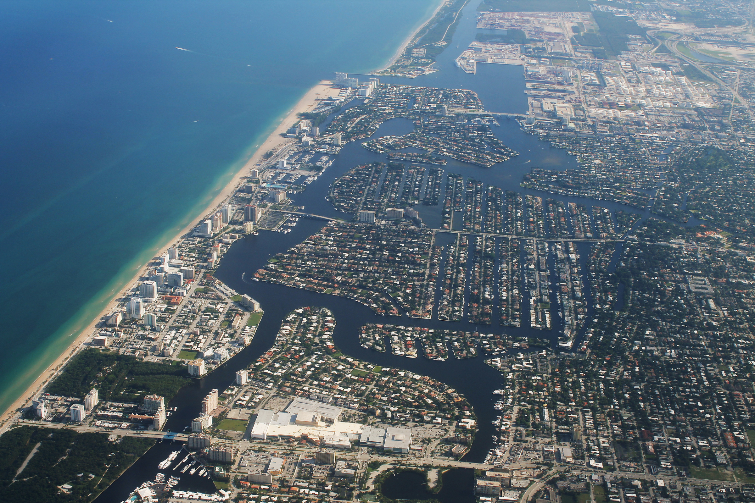 Facing south: Las Olas Neighborhood, Port Everglades, Galleria, et al.